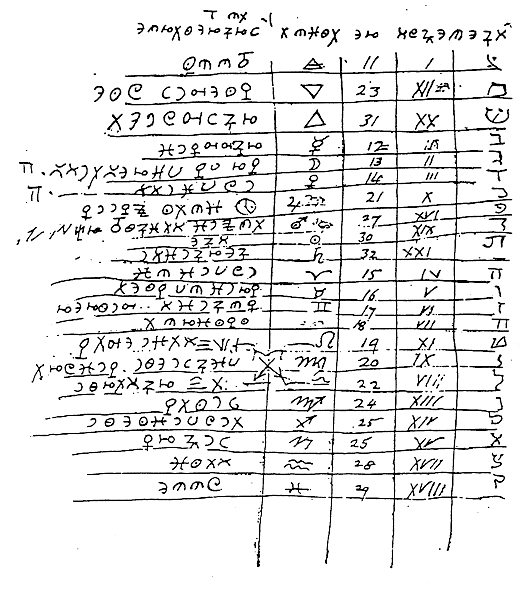 Folio 32 of the Cipher Manuscripts, which includes the "synonyms table" for tarot cards